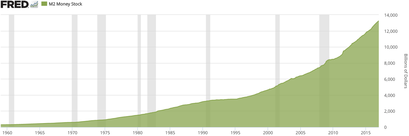 United States M2 money supply